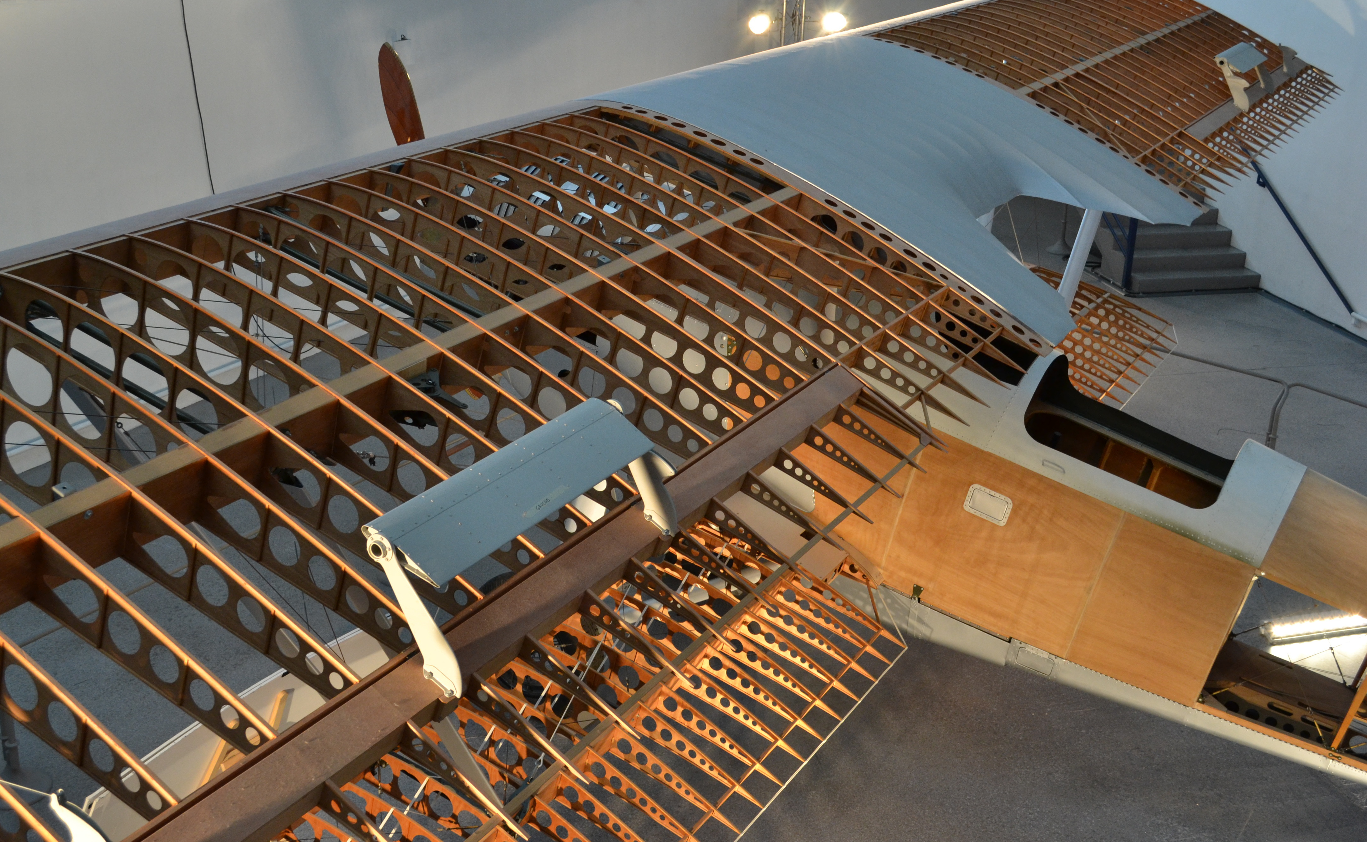 The wing structure of a Potez 25 on display at the Musée de l'Air et de l'Espace in Le Bourget, Paris.